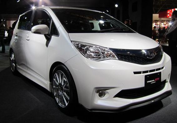 Subaru Trezia